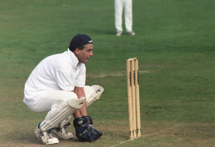 A wicket keeper standing up to a spin bowler... Woore CC, Staffordshire, President's Day 2004.